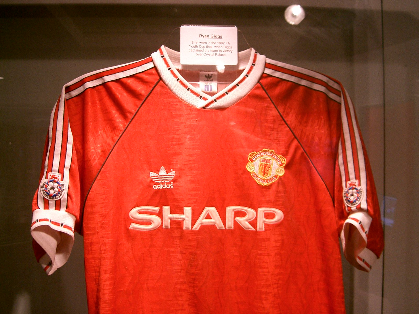 Shirt Worn by Ryan Giggs (Manchester United Museum)